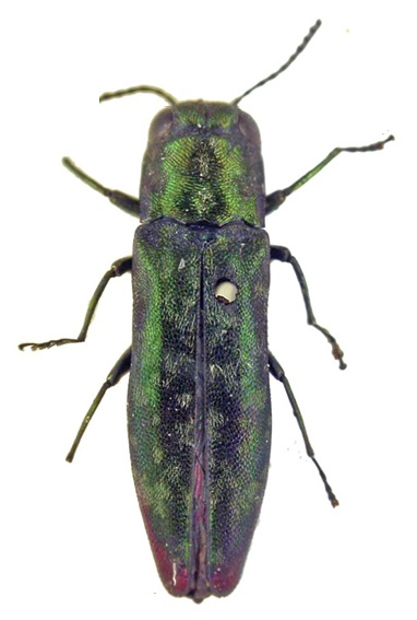 Agrilus korenskyi Obenberger 1923, lectotype.